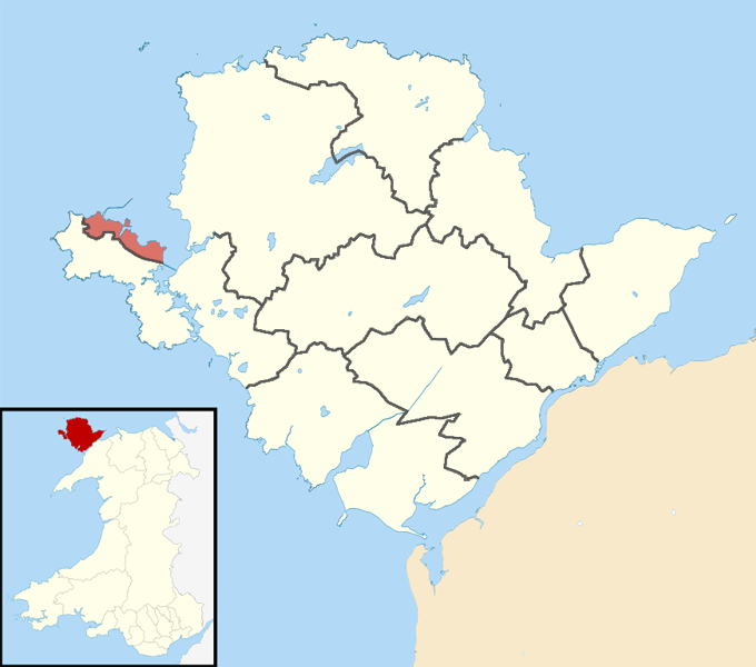 Location map of Caergybi electoral ward on the island of Anglesey / Ynys Mon